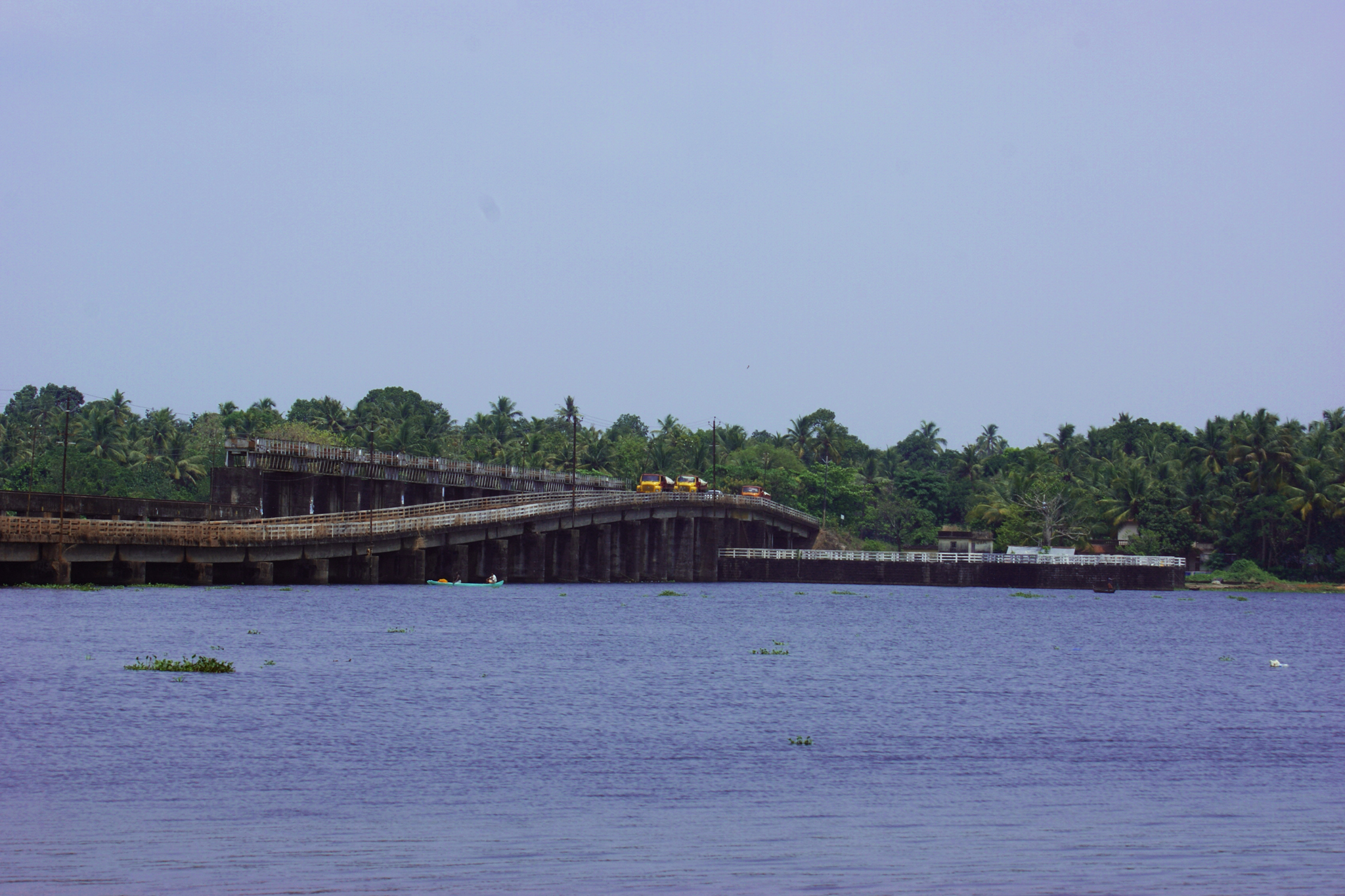 Thanneermukkom Bund a long view